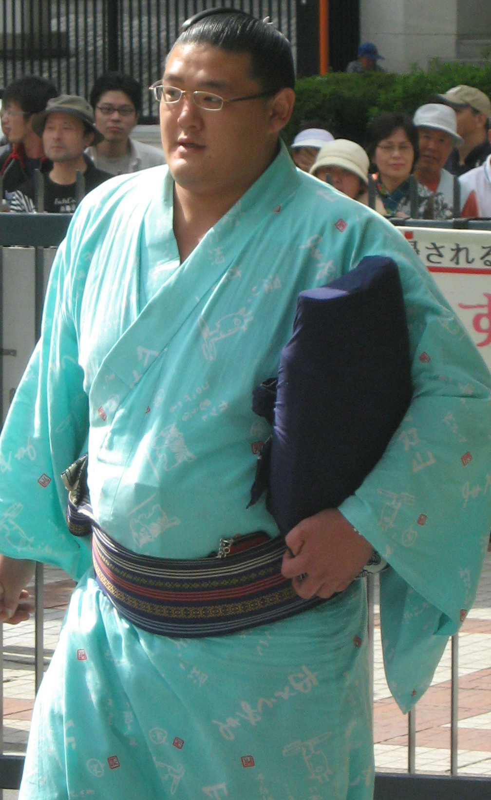 taken at the Sept 2009 tournament